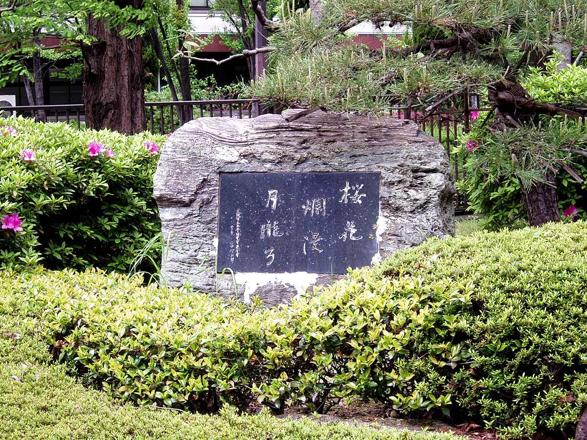 100th Anniversary Monument of Osaka City University, built in 1980, which reads "Oh-ka ran-man tsuki-obo-ro" (Cherry blossoms in full bloom; the moon being dim), a phrase from an old student song of the university.